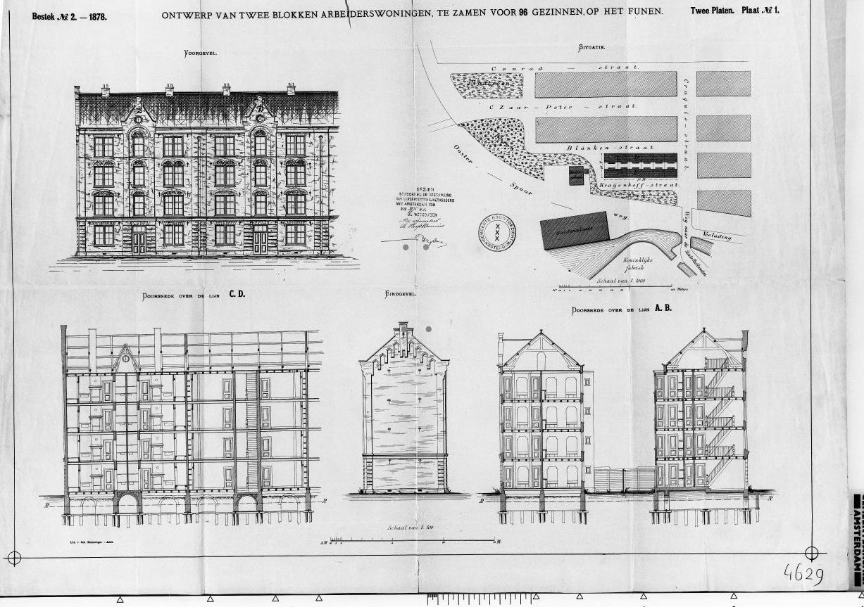 Tenement Block D and E of Amsterdamsche Vereeniging tot het Bouwen van Arbeiderswoningen, 1878, Drawing Nr. 1; Kraijenhoffstraat en Blankenstraat, Amsterdam